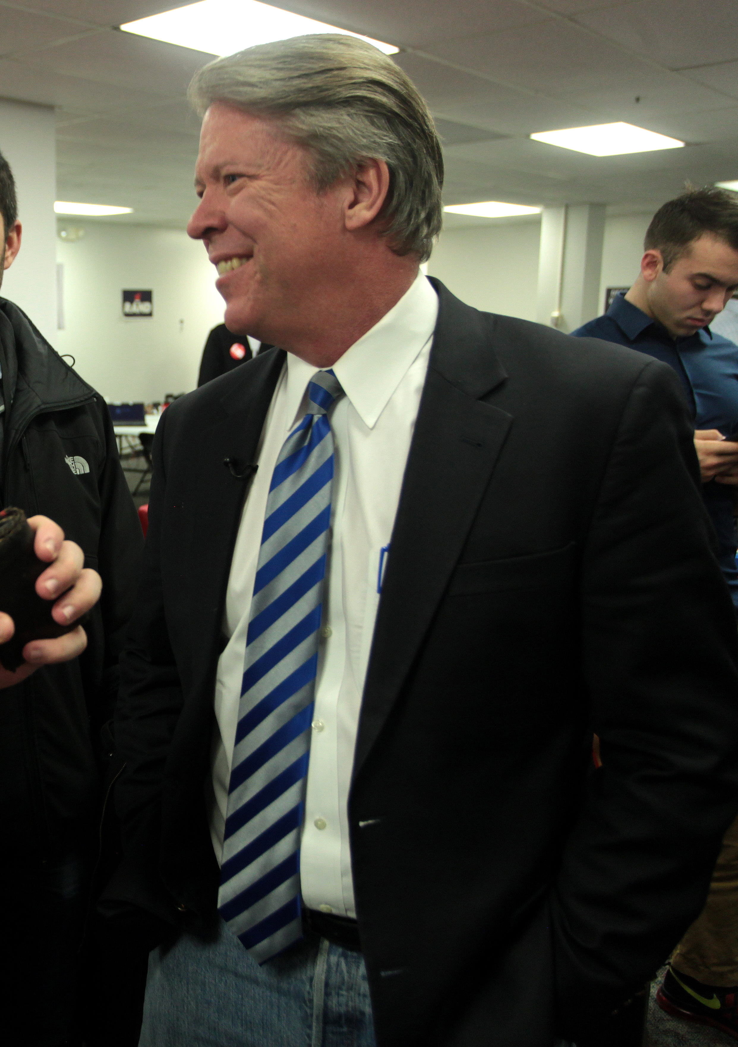 Major Garrett speaking at an event in Des Moines, Iowa.